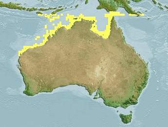 Species: Orectolobus wardi range map